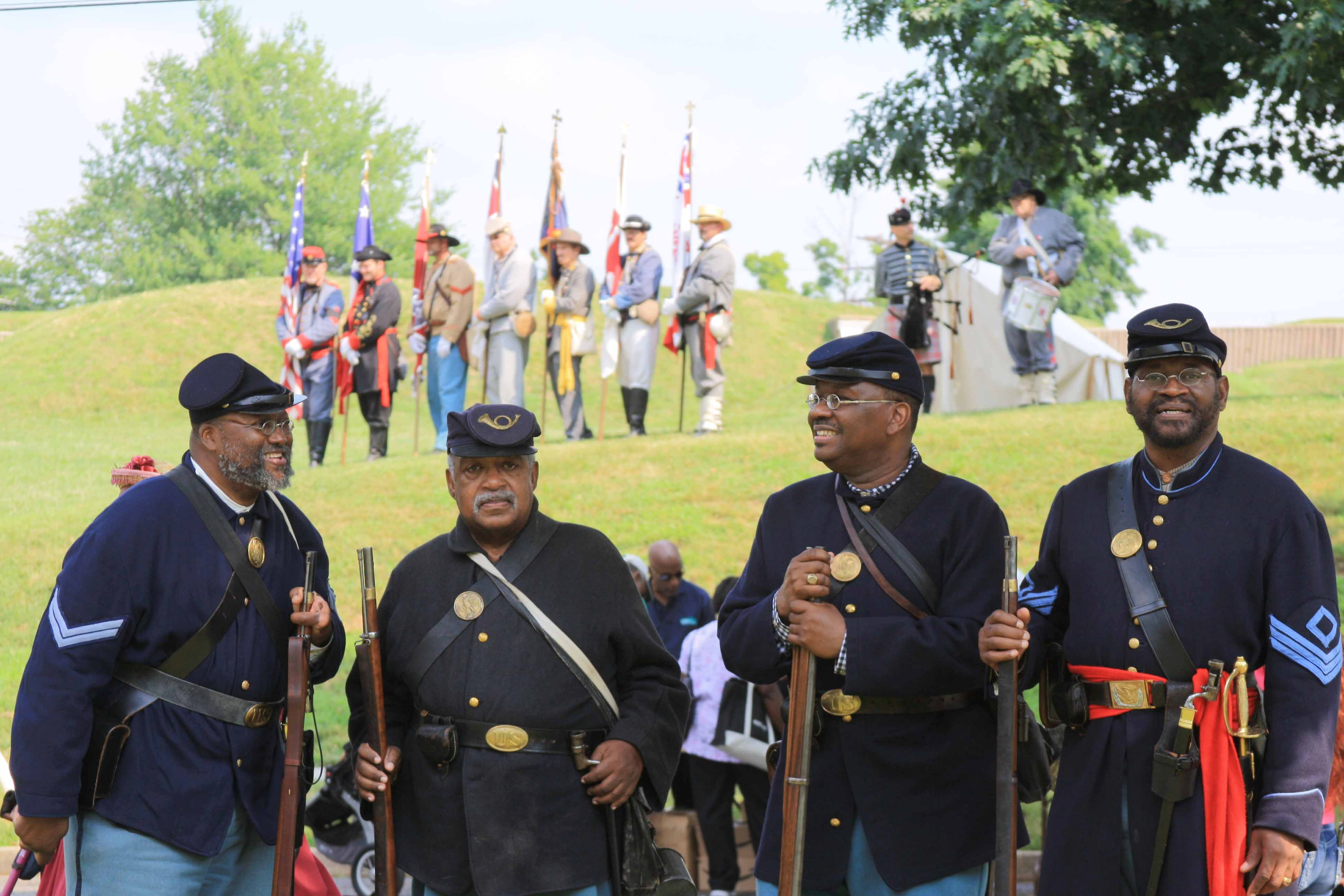 Colored Union troops as portrayed by living history demonstrators prepare of the opening ceremony while a Confederate Color Guard looks on from the hill above